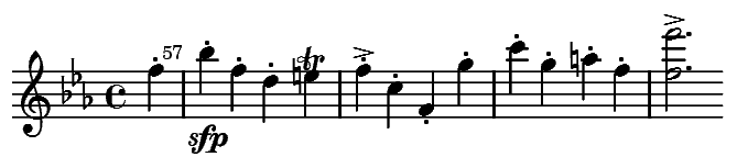 Side theme of the fifth movement in Schumann's symphony no.3, bars 57 ff.